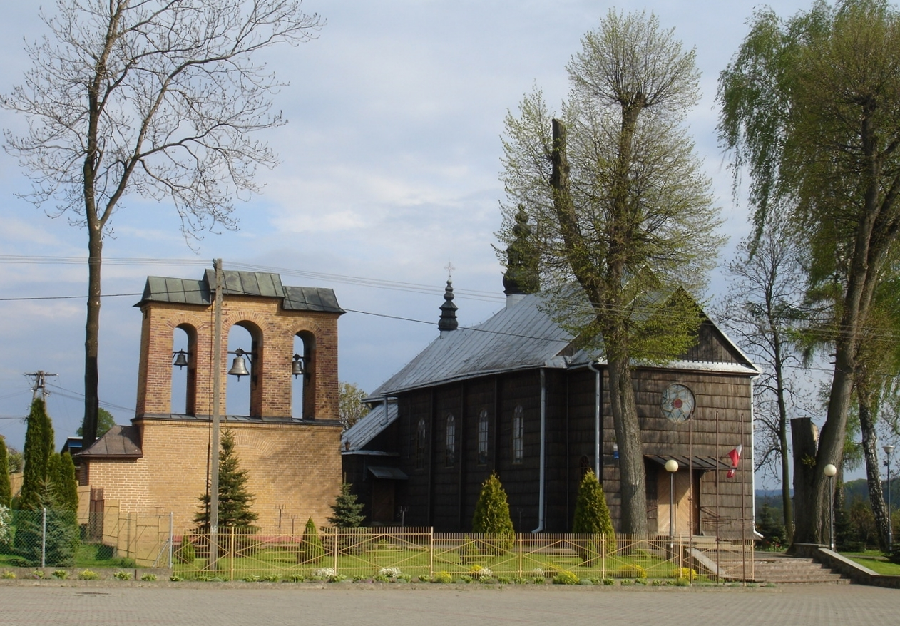 Olchowce old wooden latin church